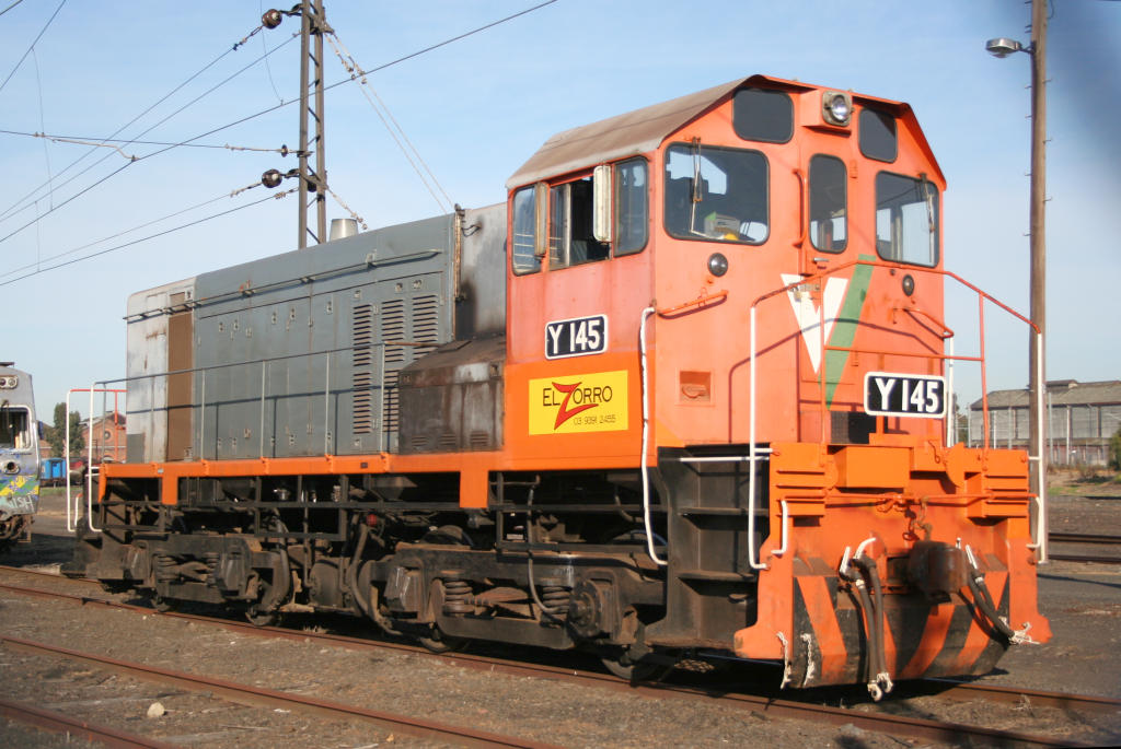 Victorian Y class locomotive Y145, now with private operator El Zorro